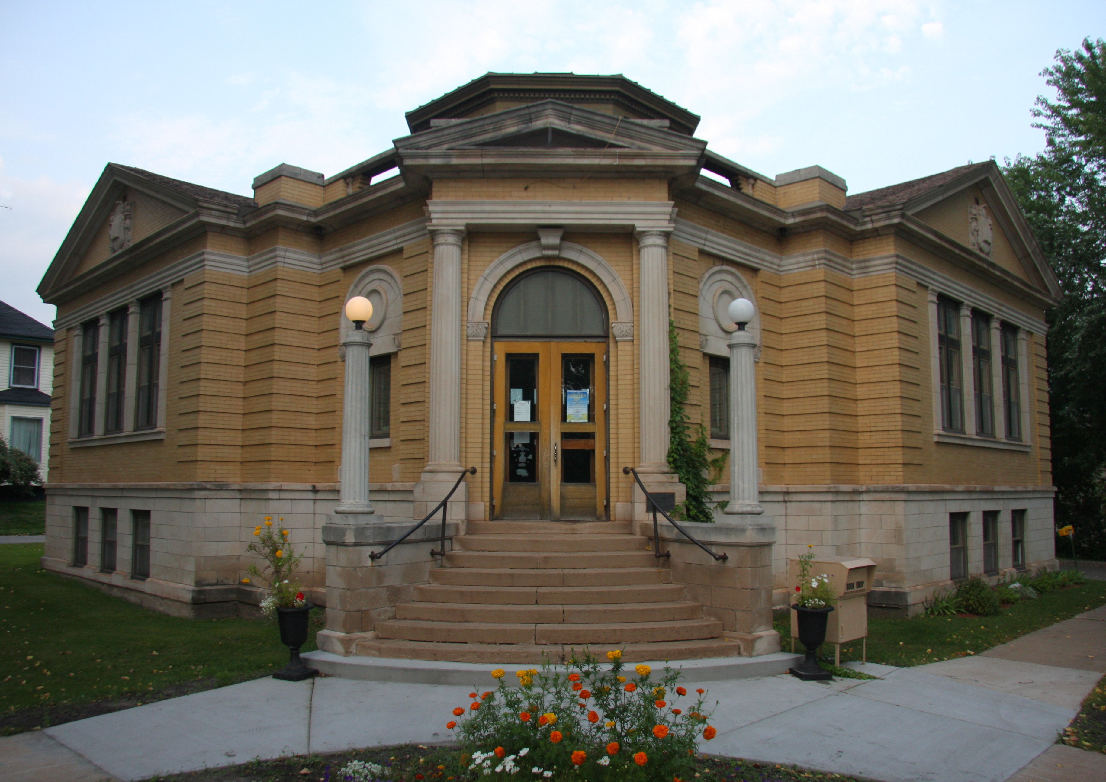 1912 brick Classical Revival Carnegie library at Clemson and Cole Avenues in Coleraine, Itasca County, Minnesota, United States